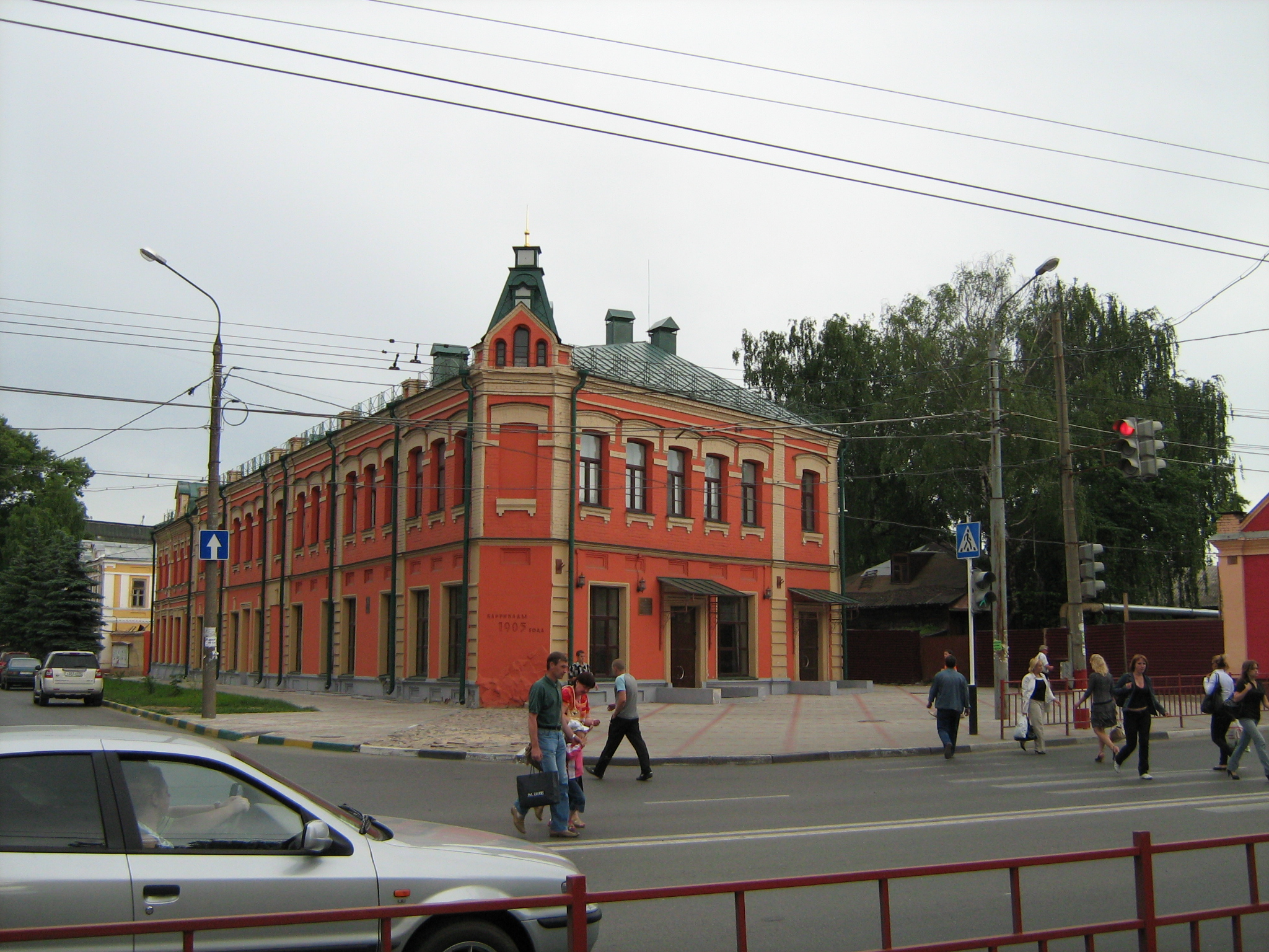 Komintern St in central Sormovo